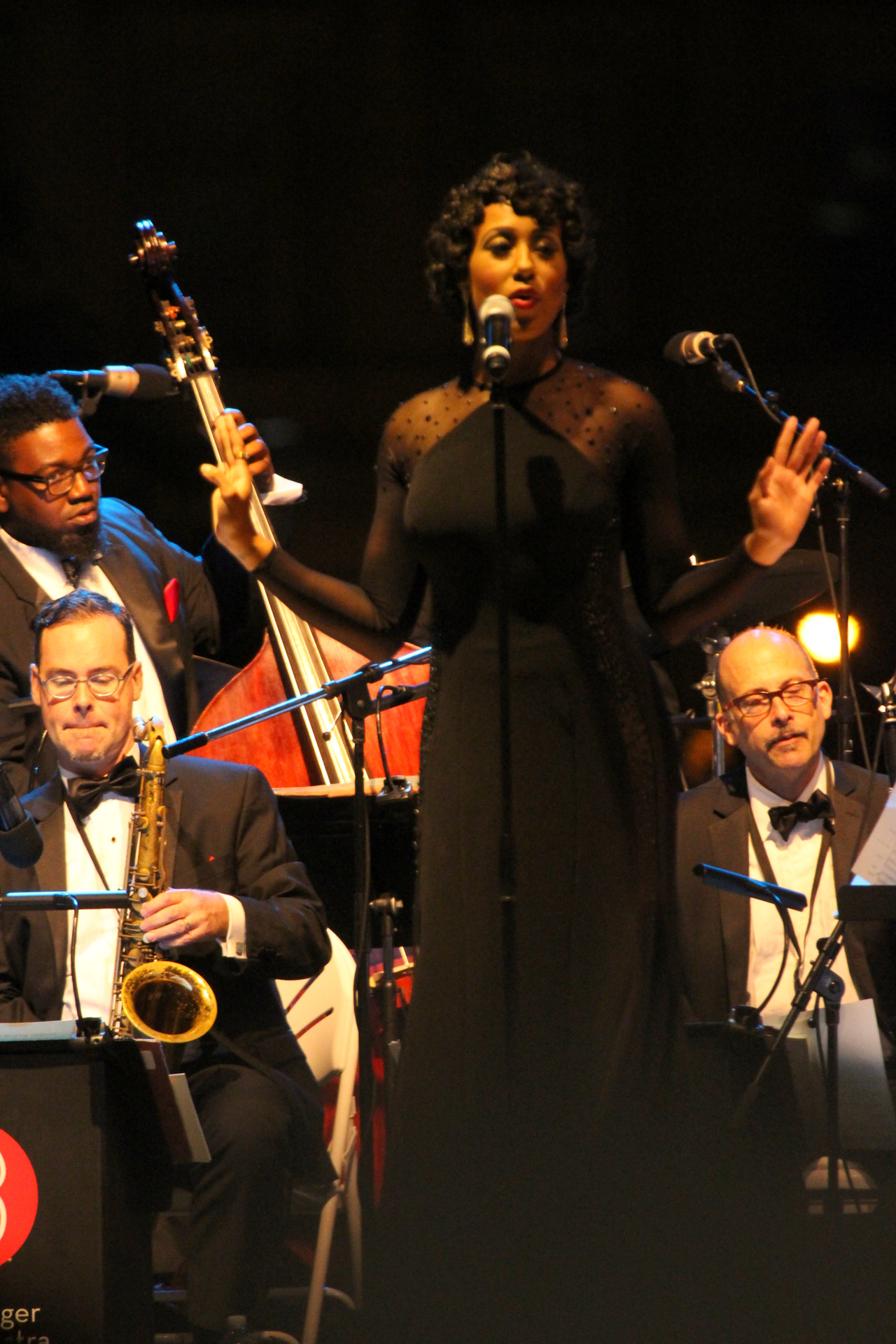 Margot Bingham in 2014. At the Detroit Jazz Festival 2014.